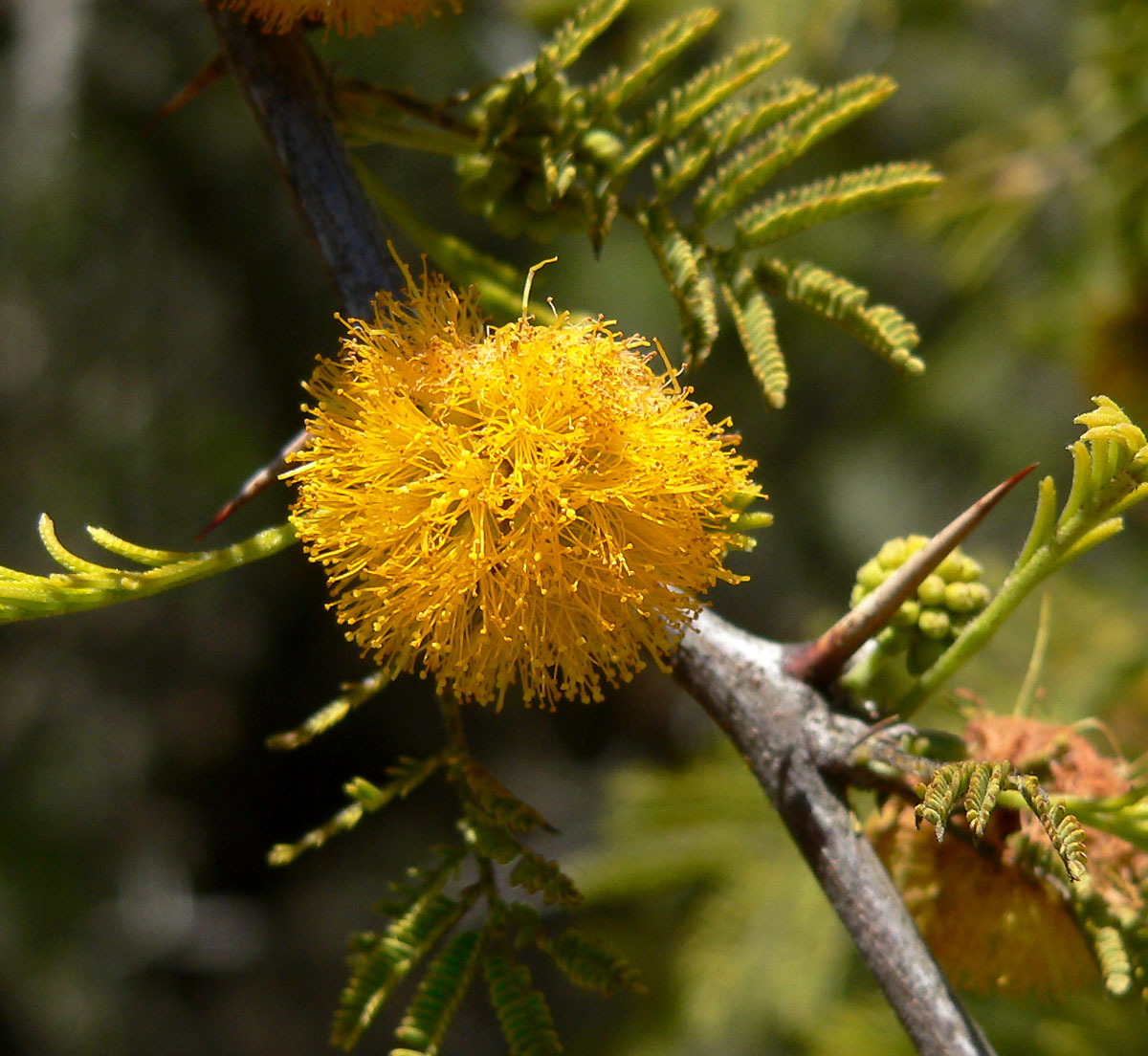 Acacia caven at the University of California Botanical Garden, Berkeley, California